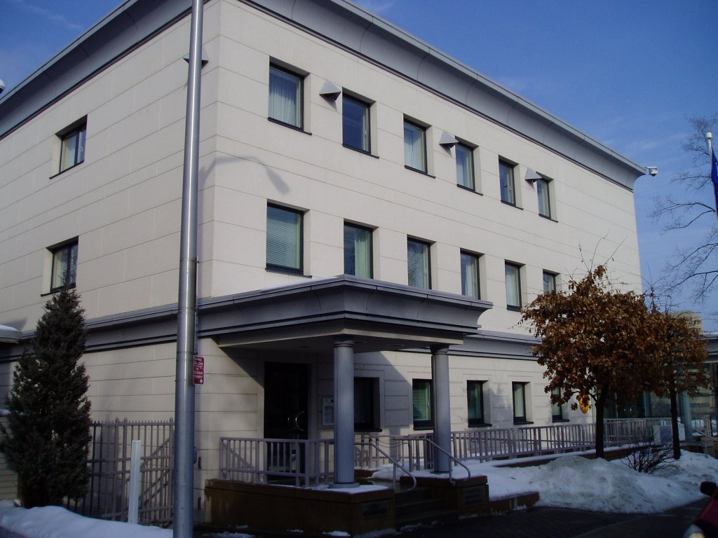 German Embassy in Ottawa, Canada